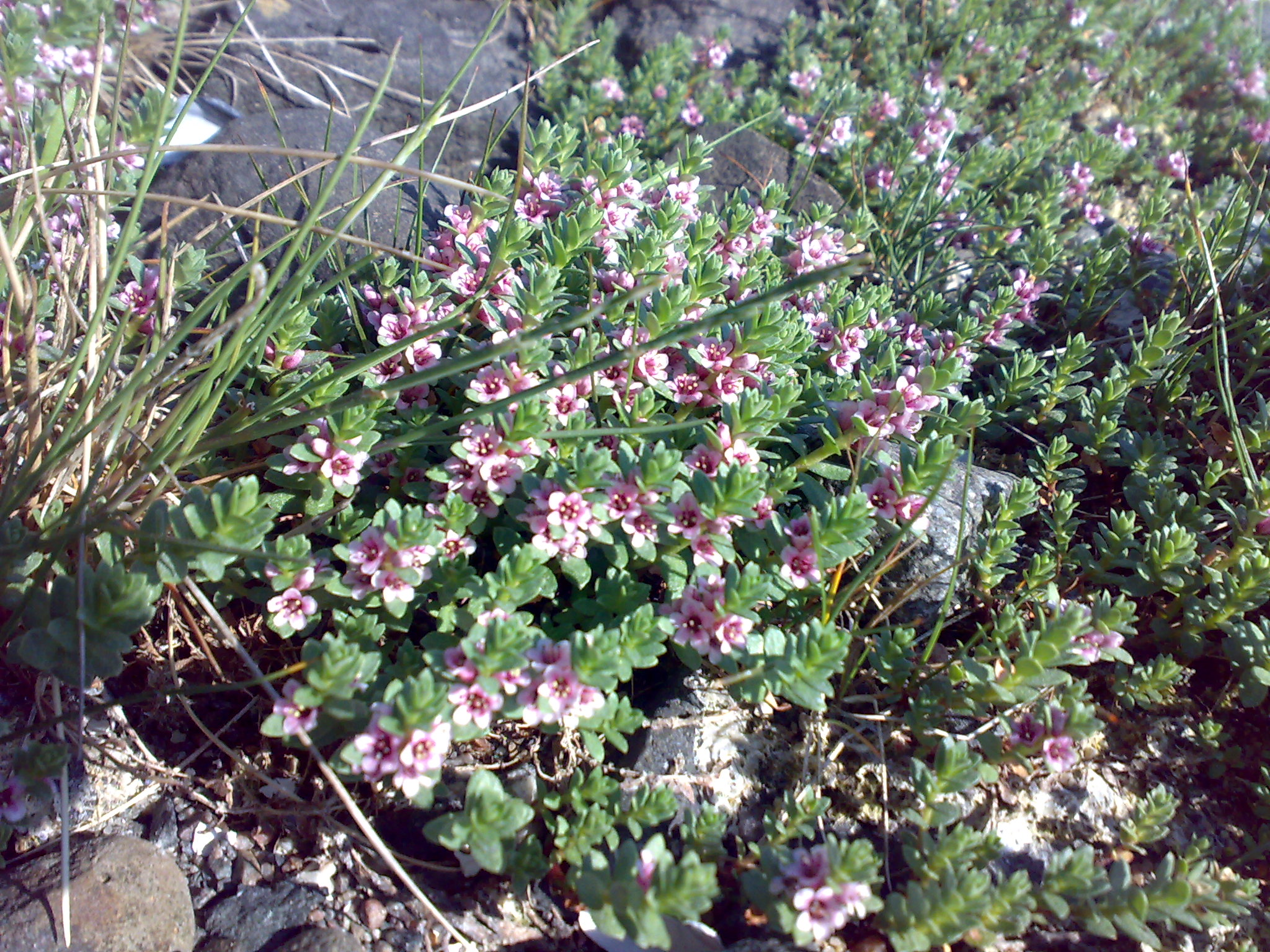 Glaux maritima , Norway 7 june 2008